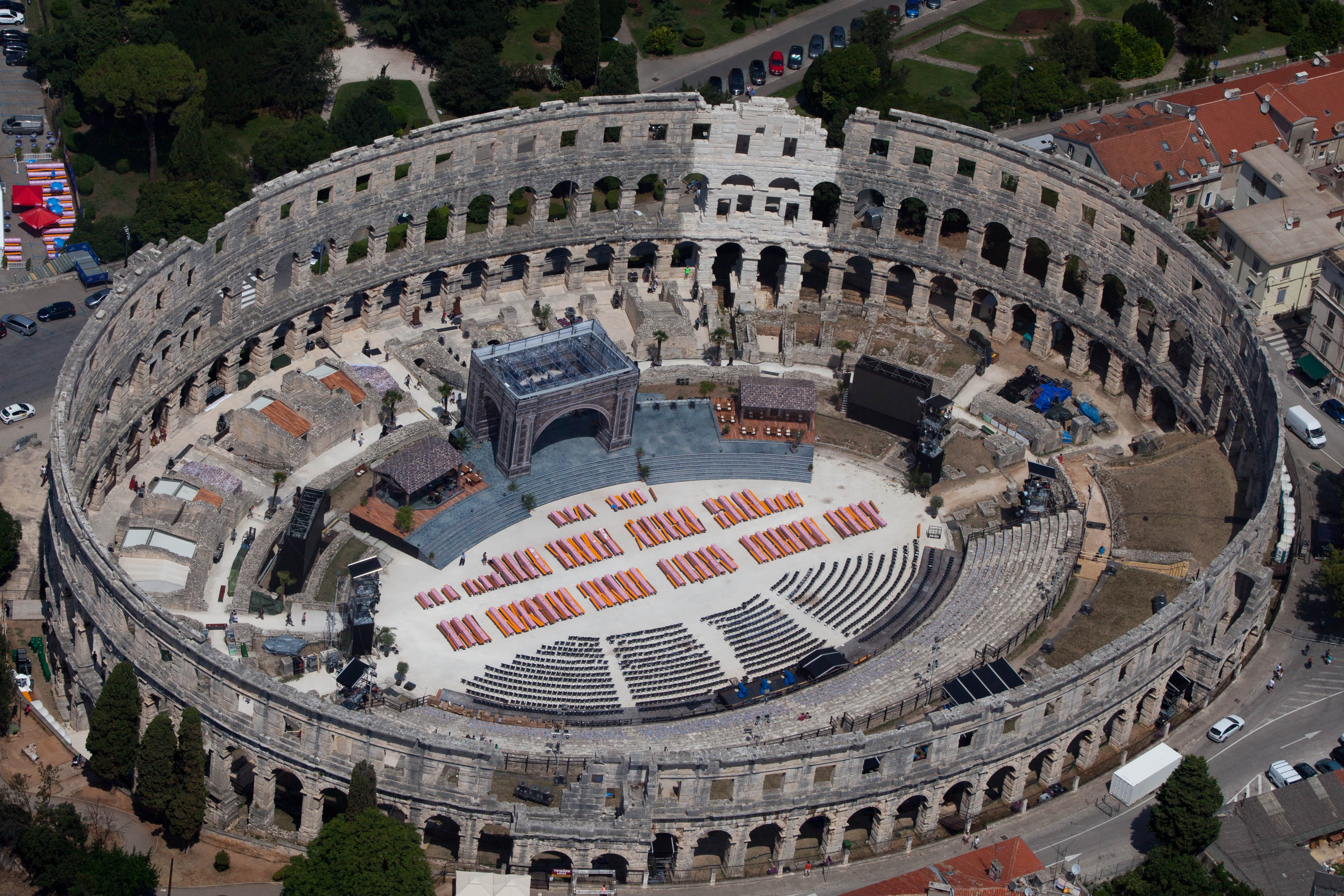 The new old amphitheater in Pula, Istria. Built around 0 AD/BC and one of the largest remaining in the world.